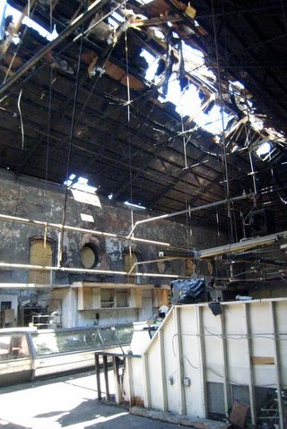 North end of the South Hall of Washington D.C.'s Eastern Market shortly after a fire on April 30, 2007 badly damaged the building.